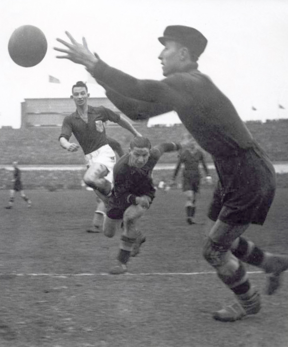 Dutch soccer player Bep Bakhuys on the offensive during the Netherlands-Belgium. 1935.